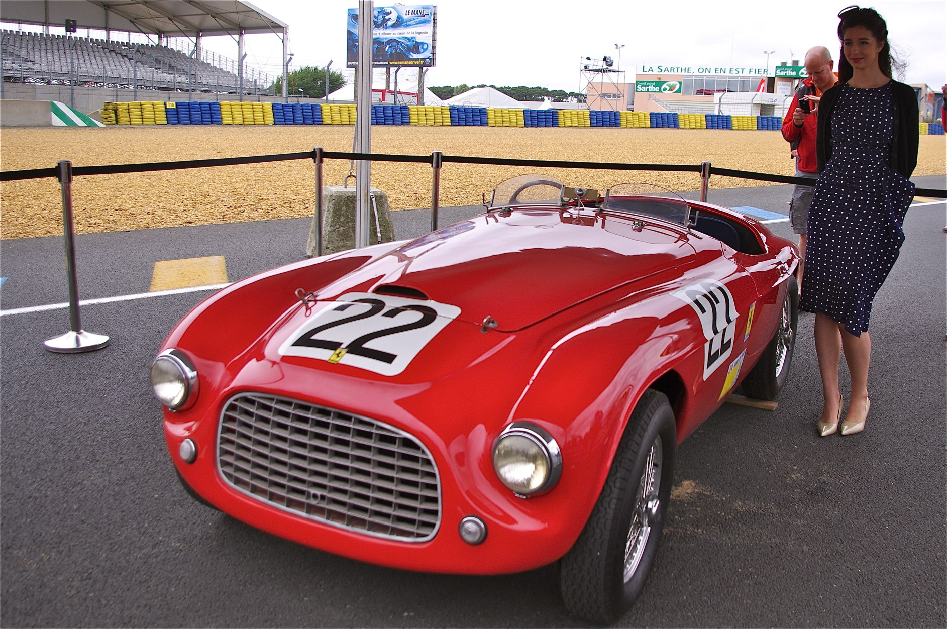 Pit Walk, Le Mans 24 Hours 2013. This is a 1949 model Ferrari 166 MM (serial number #0014M).[1] It is normally on display at the Musée des 24 Heures du Mans (Le Mans Museum).